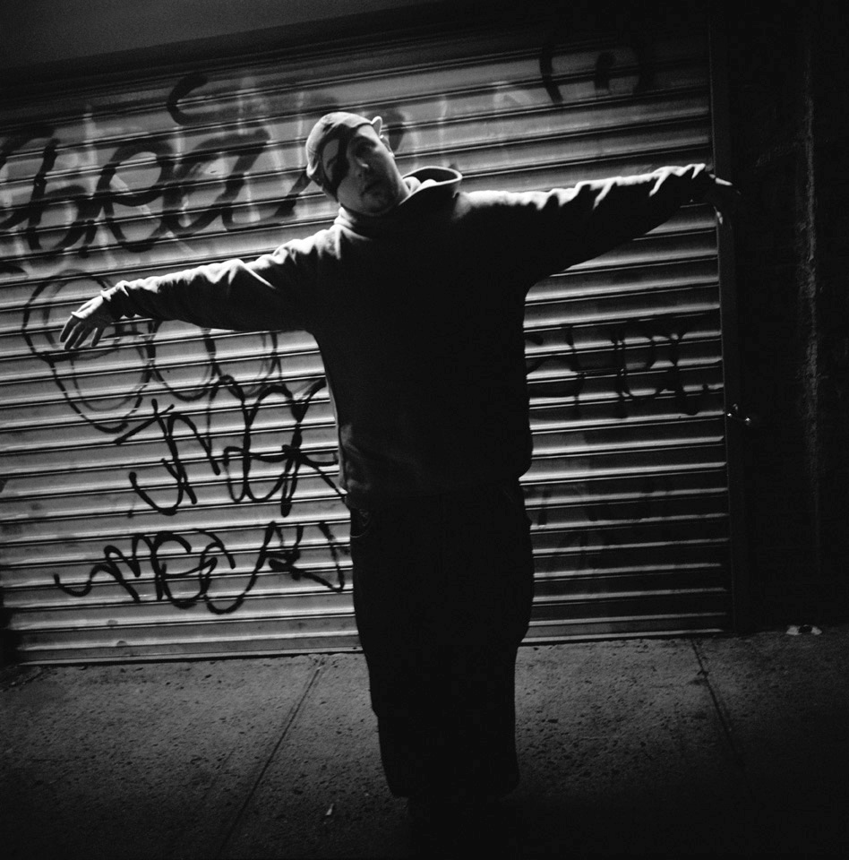 NYC 1998, Necro